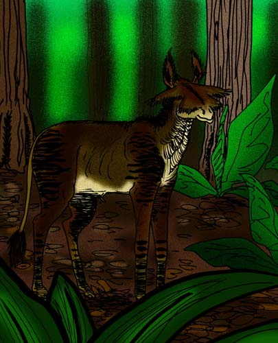 The primitive giraffid, Injanatherium arabicum, of Middle Miocene Pakistan